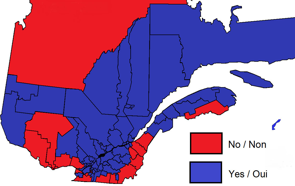 Quebec national sovereignty referendum result by provincial